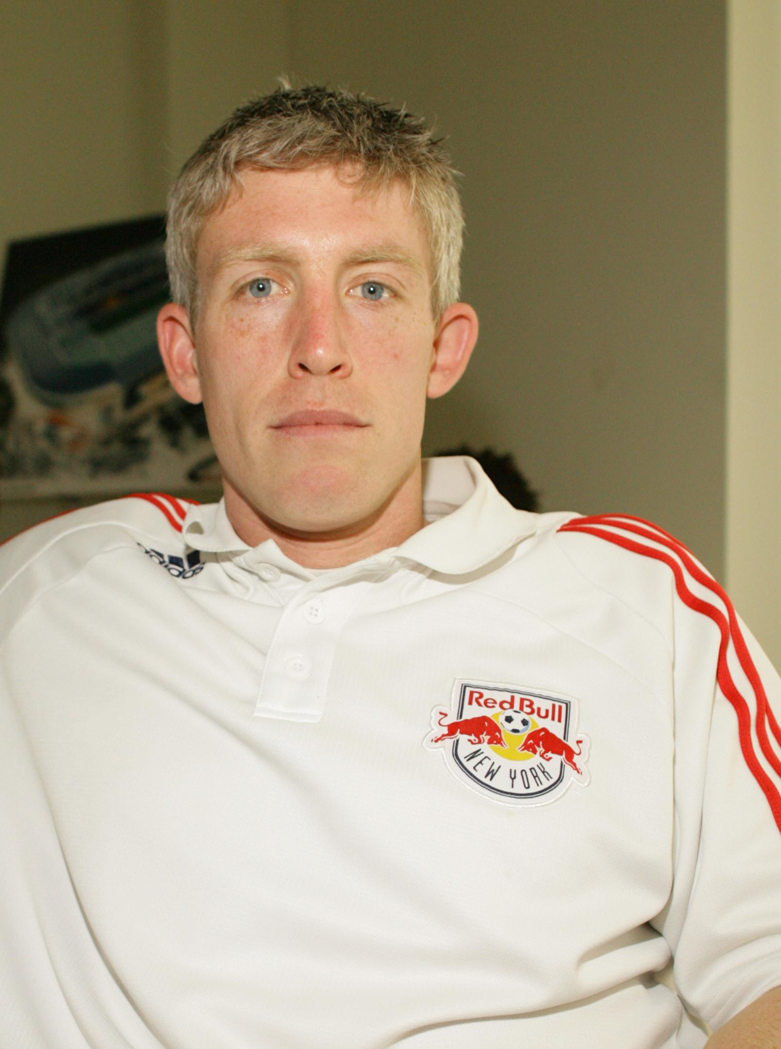 John WOLYNIEC #15, Forward